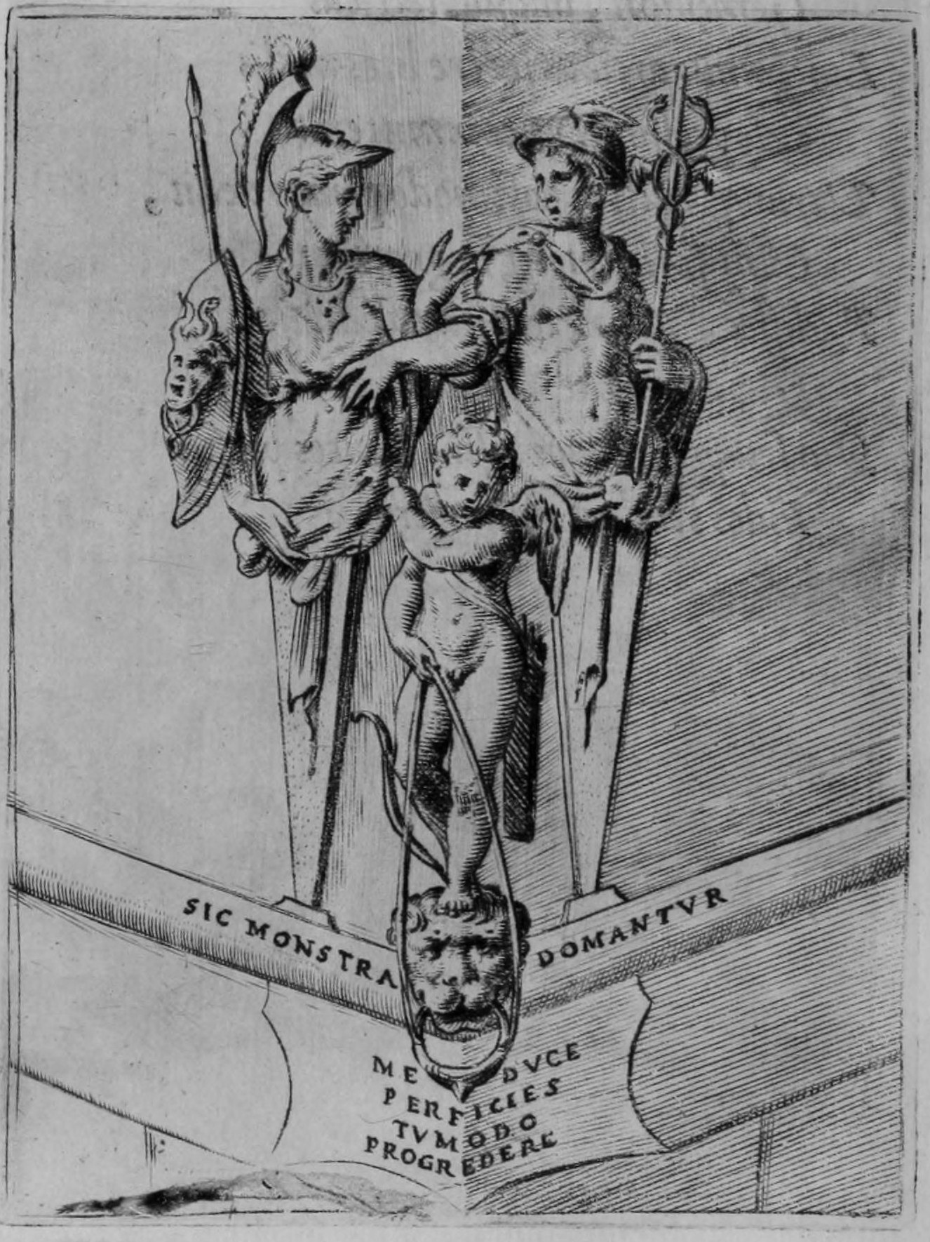 Hermathena from Achilles Bocchi, Symbolicae quaestiones..., 1574. The motto reads “Sapientium modestia, progressio eloquentium, felicitatem haec perficit” (The modest wise, progress eloquence, this brings happiness). The engraving is by Giulio Bonasone.